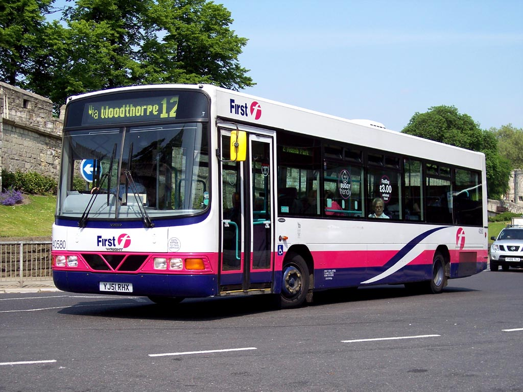 First York operated this Volvo B6BLE with Wright body when it was photographed in York city centre.